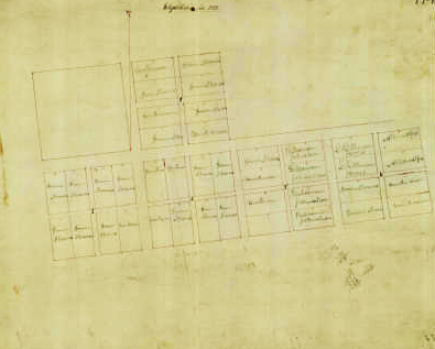 Hand drawn plat map of Elizabethtown.